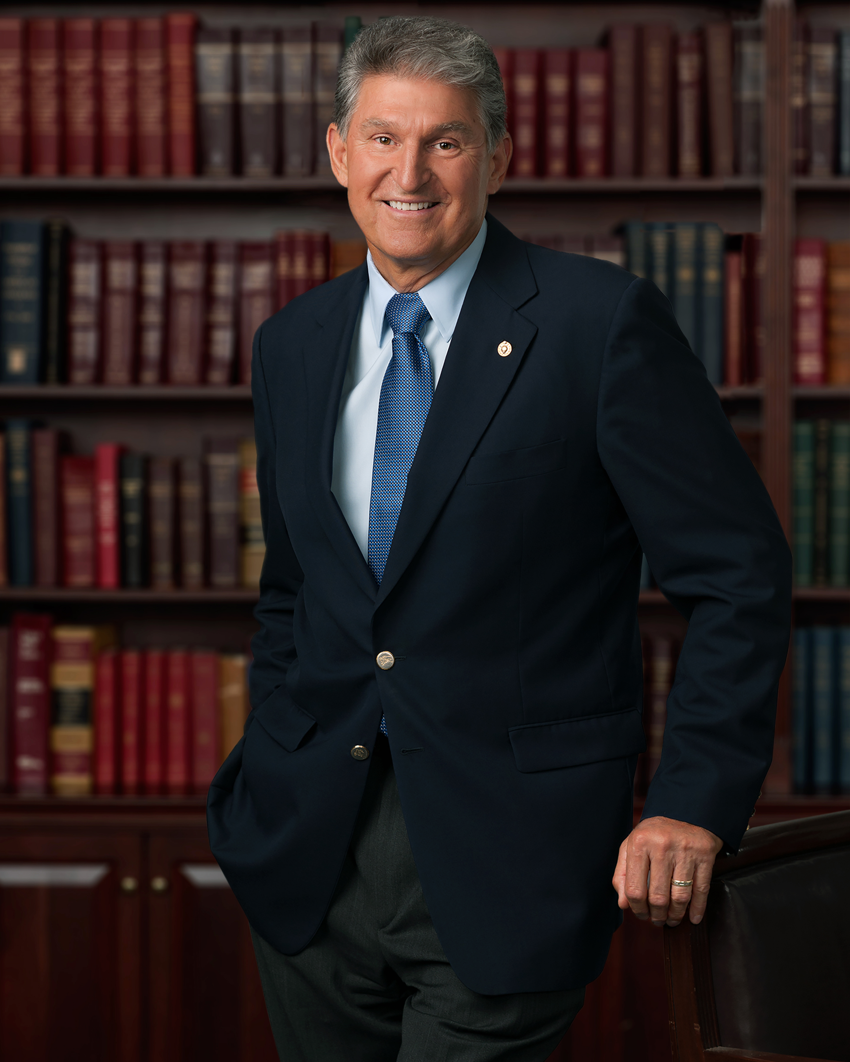 Official portrait